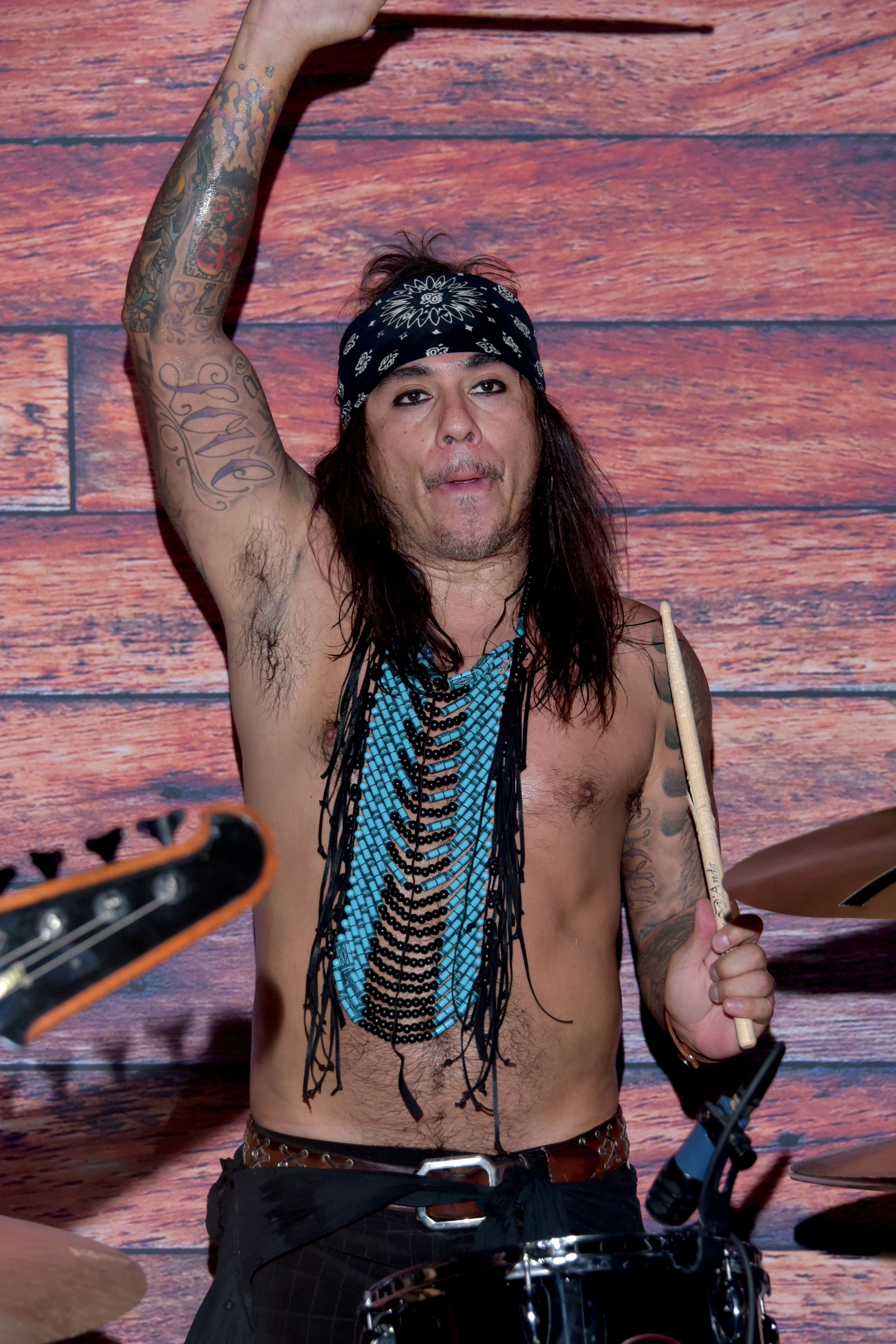 Jimmy D'Anda at 'The NAMM Show' on January 17, 2020 in Anaheim, California - Photo by Glenn Francis of